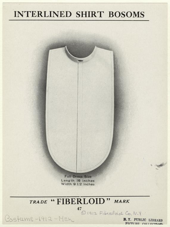 Advertisement for a man's false shirt front or "dicky"/"dickey". Courtesy of The New York Public Library.